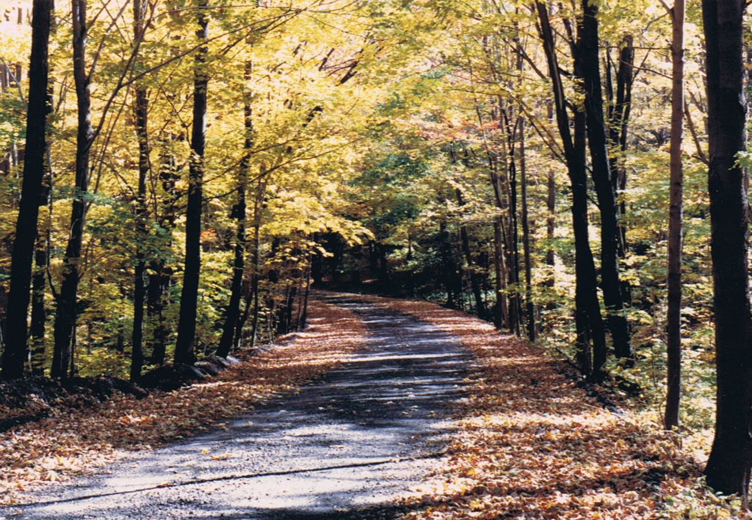 Leaves changing color.